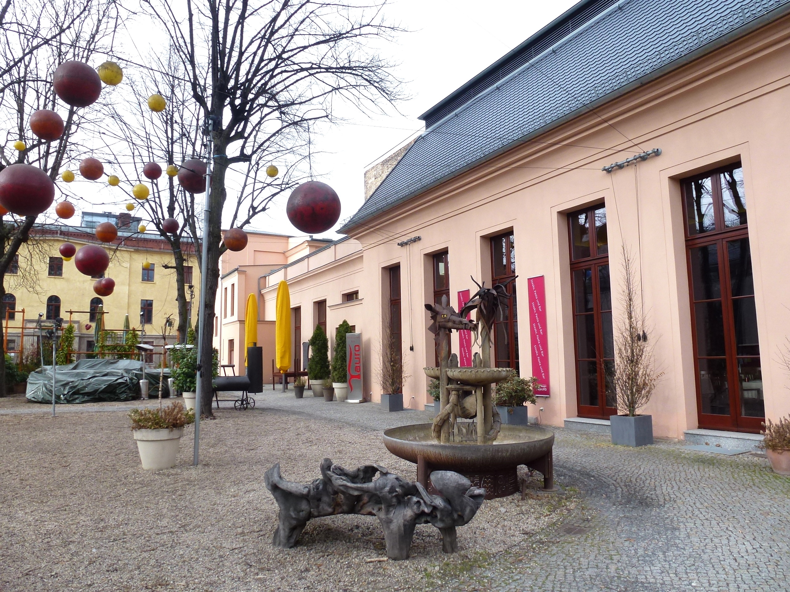 Berlin-Prenzlauer Berg Pfefferberg